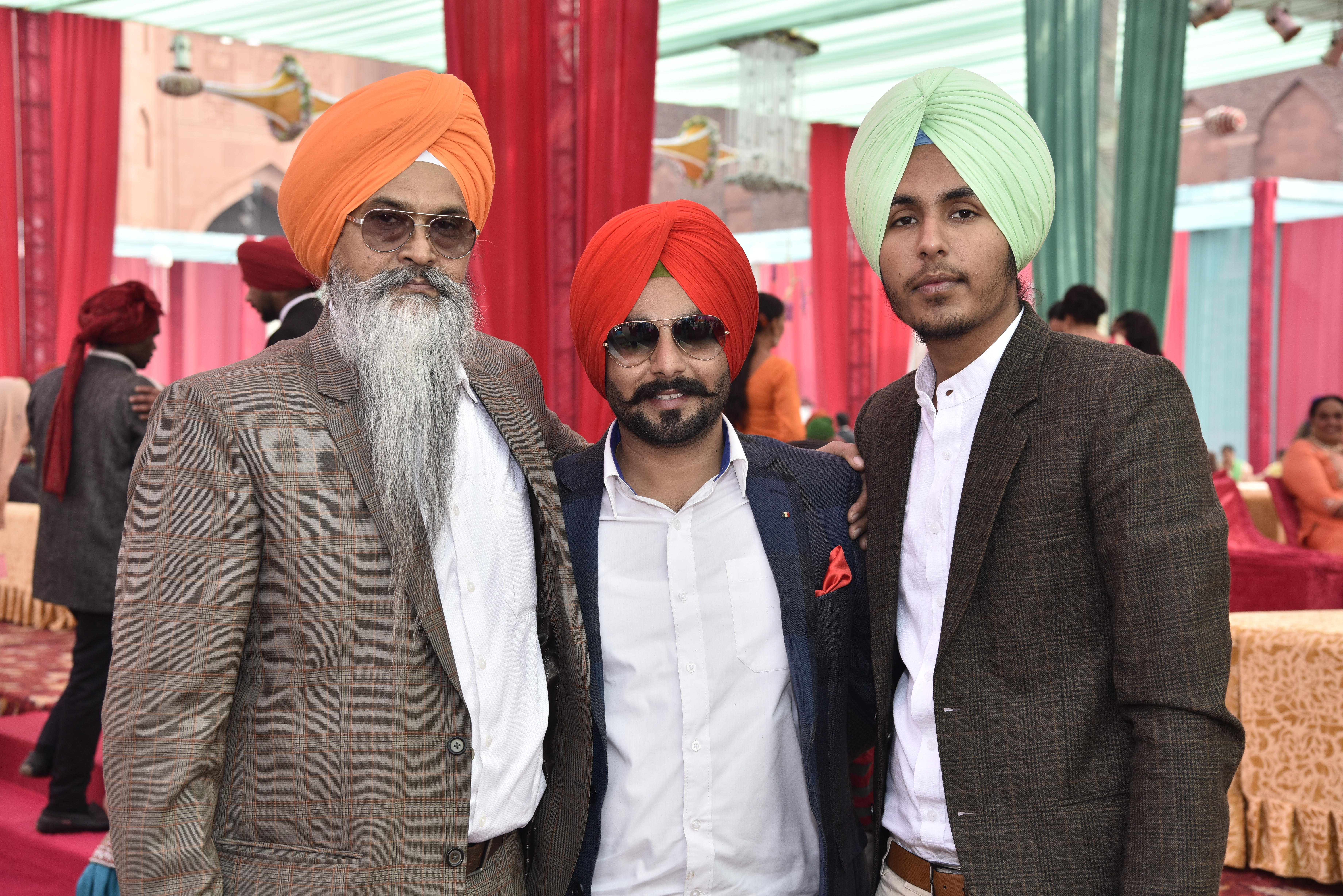 This photo has been taken in the country: India